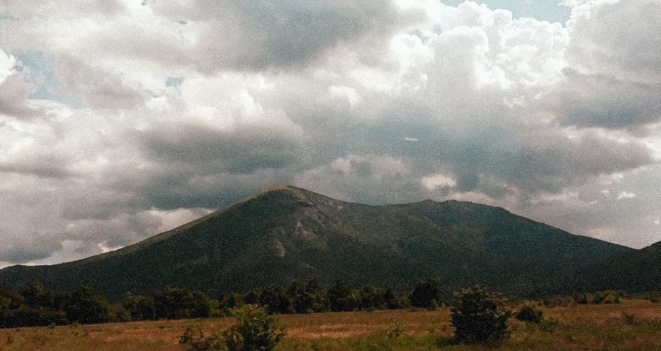 A photo of the Eastern Serbian mountain called Rtanj, which is widely known for it's pyramid-like shape.